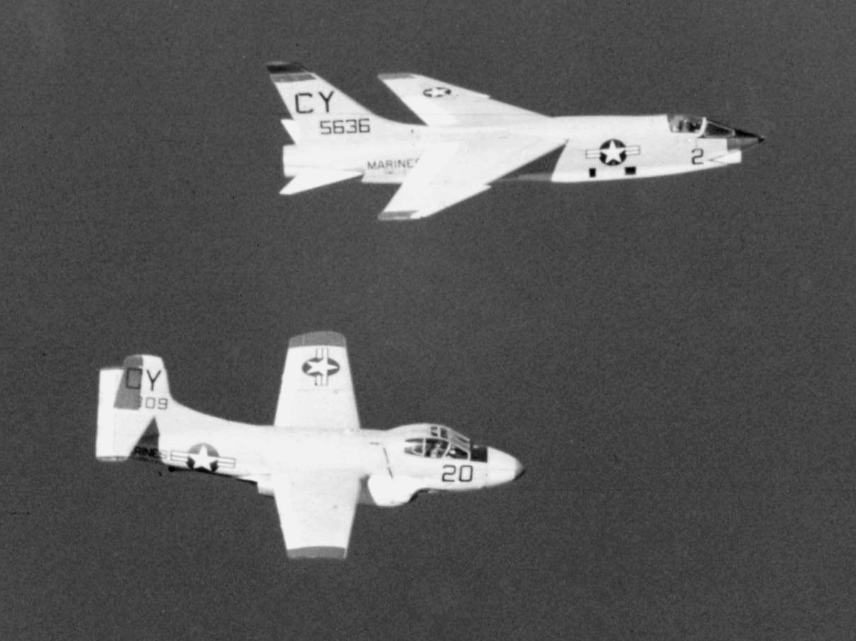 A U.S. Marine Corps Vought F8U-1P Crusader (BuNo 145636) and a Douglas F3D-2Q Skynight (BuNo 125809) of Marine Composite Reconnaissance Squadron 2 (VMCJ-2) "Playboys" in flight near Marine Corps Air Station Cherry Point, Noth Carolina (USA).